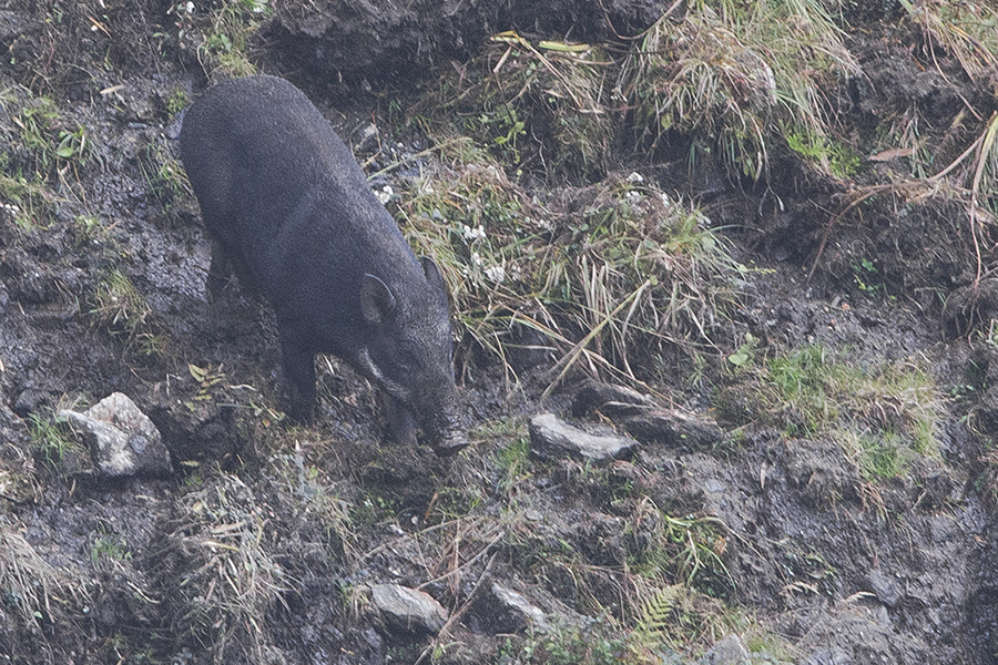 The species Wild Boar had been photographed from Pangolakha Wildlife Sanctuary in East Sikkim, India on 19.10.2015.